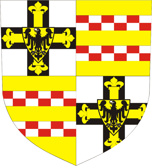 Teutonic Order - Coat of Arms of the Grandmaster Martin Truchseß von Wetzhausen